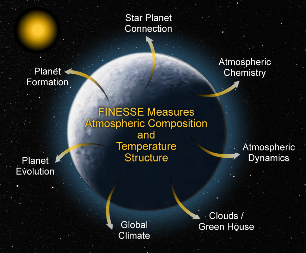 FINESSE provides uniquely detailed information and addresses many fundamental exoplanet science questions.